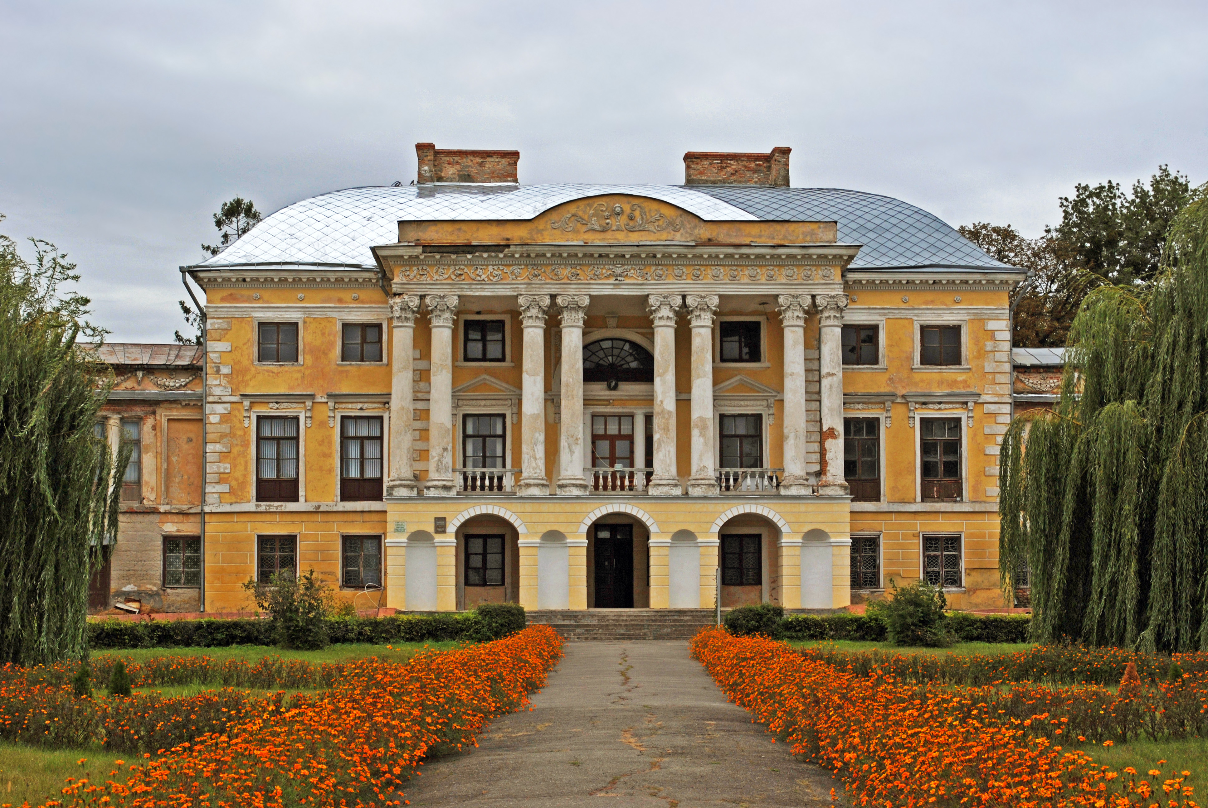 Palace of Grokholsky, Voronovytsia, Vinnytsia Oblast